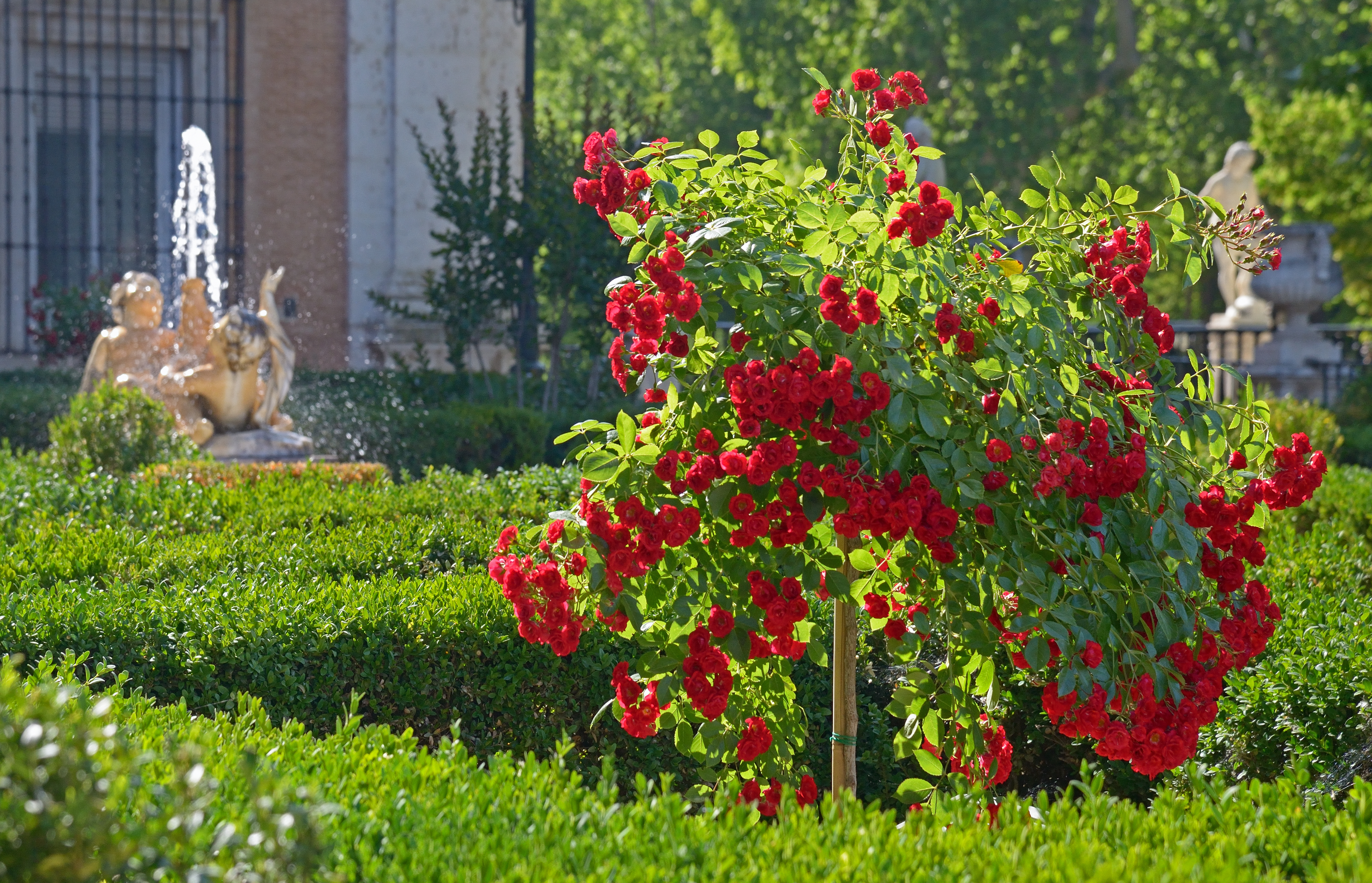 In the Palace garden. Aranjuez, Spain.